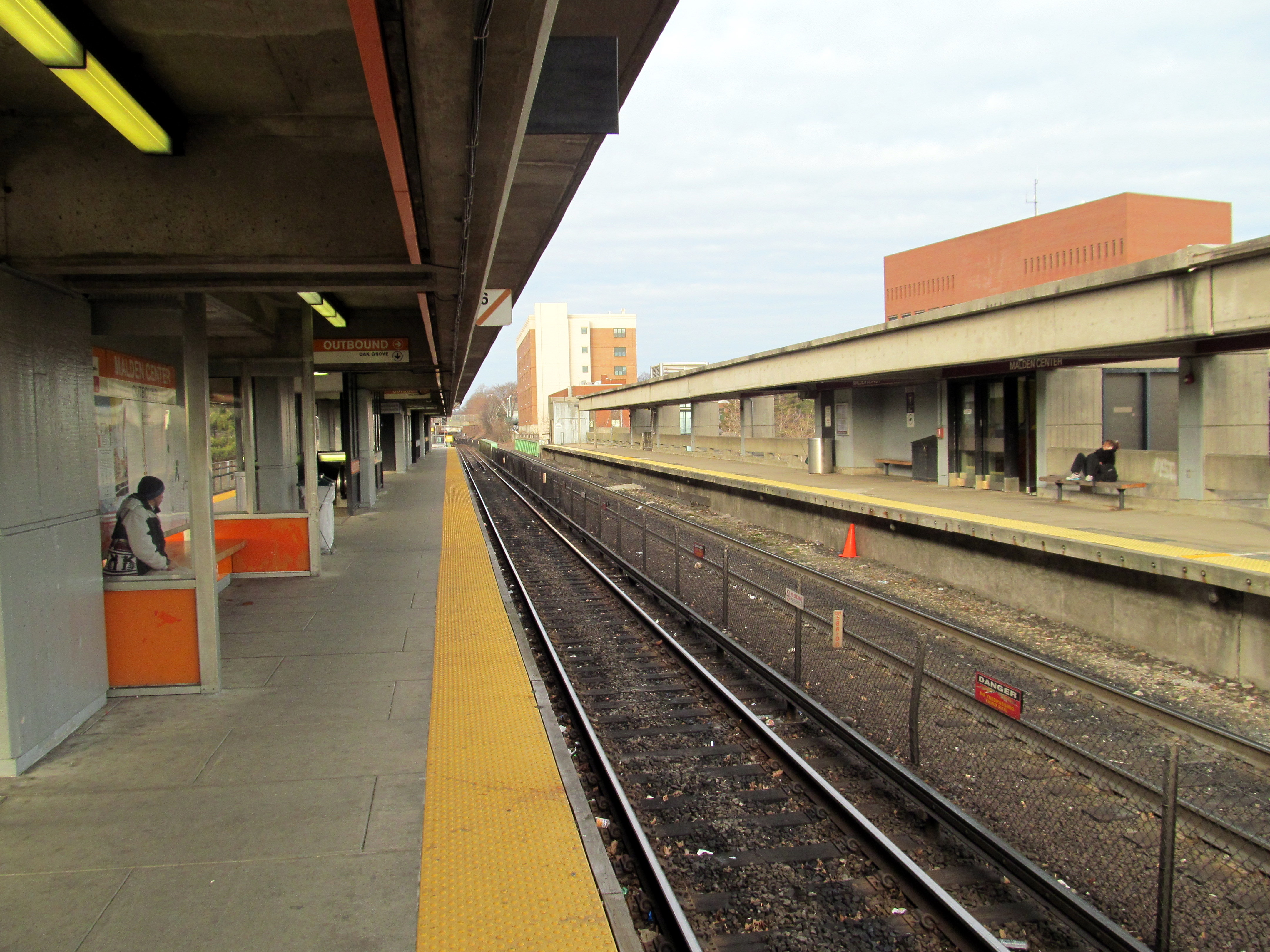 Malden Center station: Orange Line on the left, commuter rail on the right